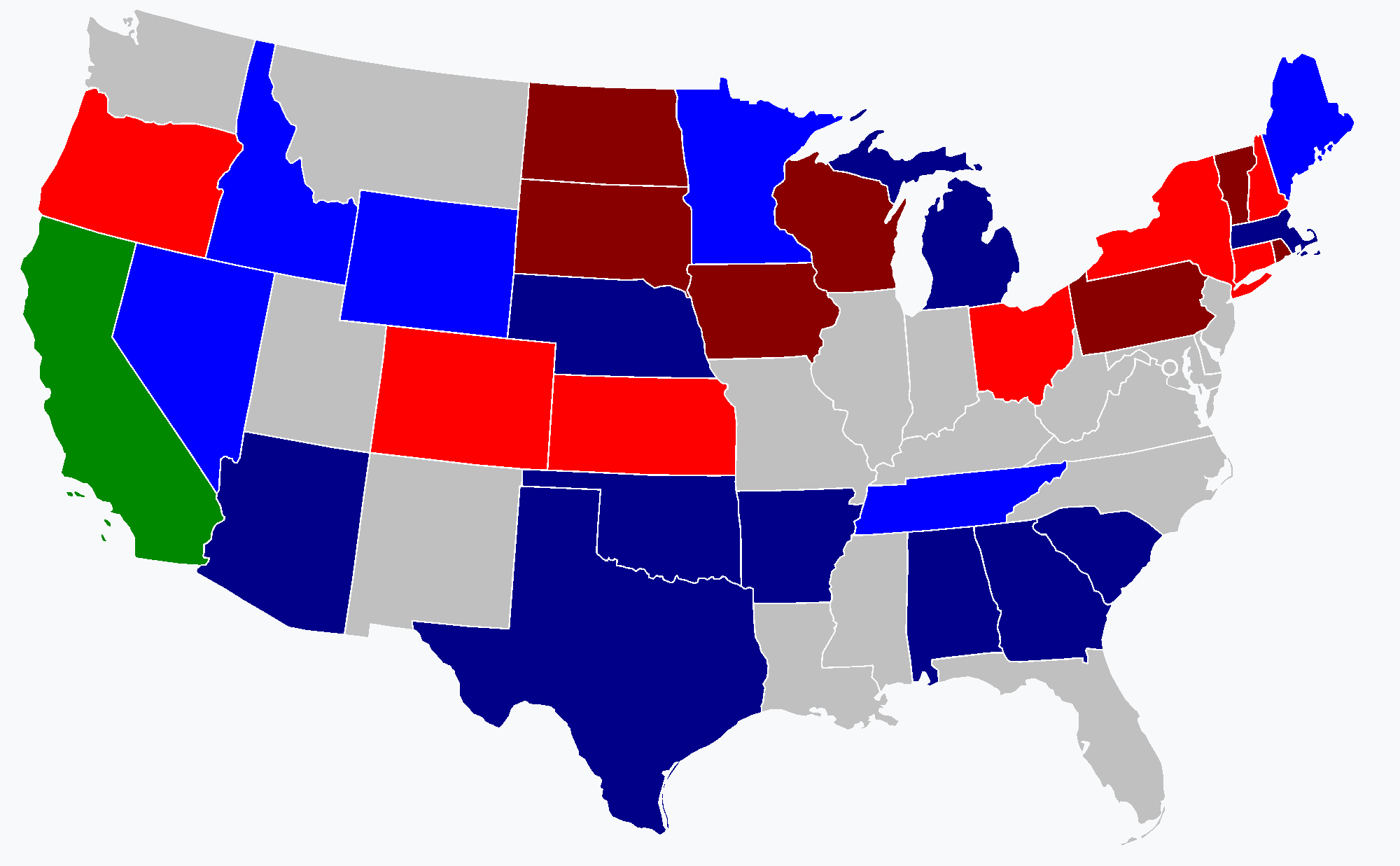 A map showing the results of the 1914 United States Gubernatorial elections